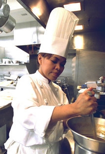 White House executive chef Cristeta Comerford in July 2002.